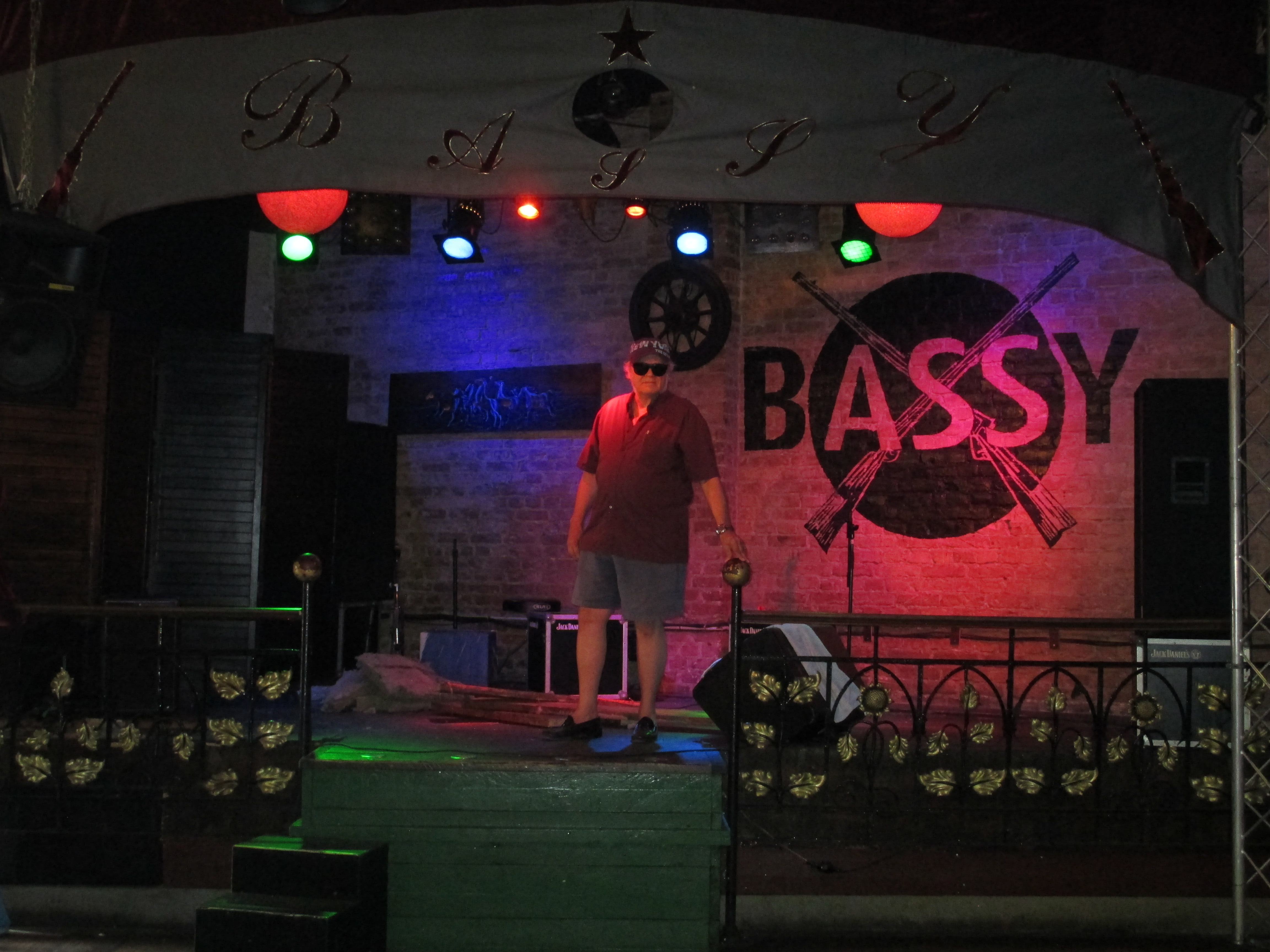 Lars Jacob on a venue scouting tour to Berlin-Paris-London-Amsterdam-CopenhagenPlace: Bassy Cowboy Club, Schönhauser Allee 176A, Berlin, Germany